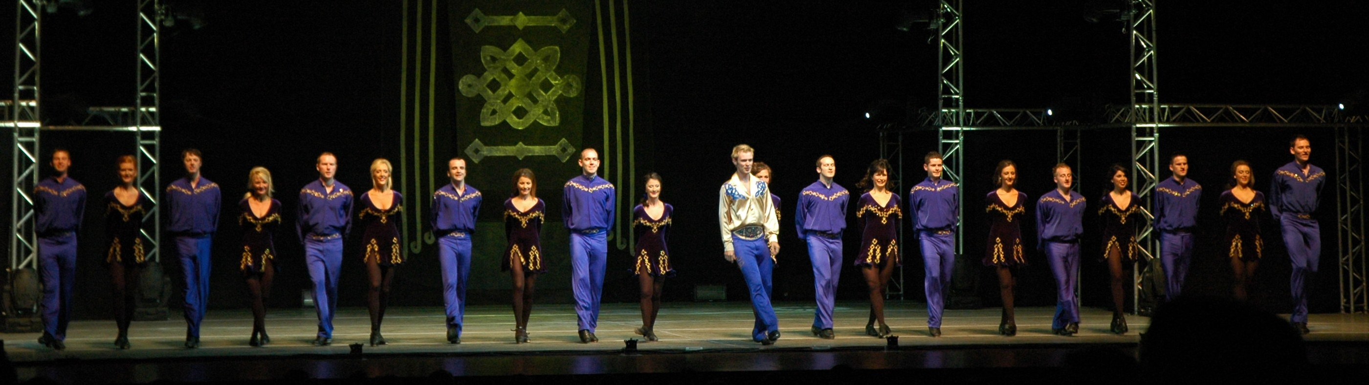 "Lord of the Dance" show of Michael Flatley, part 1 "Cry Of The Celts".